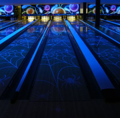 Glow Bowling is a new and exciting aspect of the Student Center Bowling Alleys